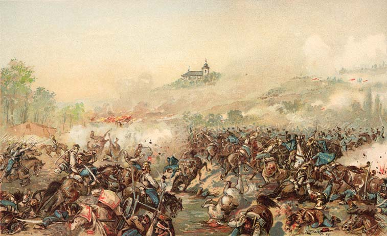 Cavalry fight at the battle of Isaszeg 06.04.1849